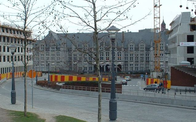 Liège, Belgium: Square Notger